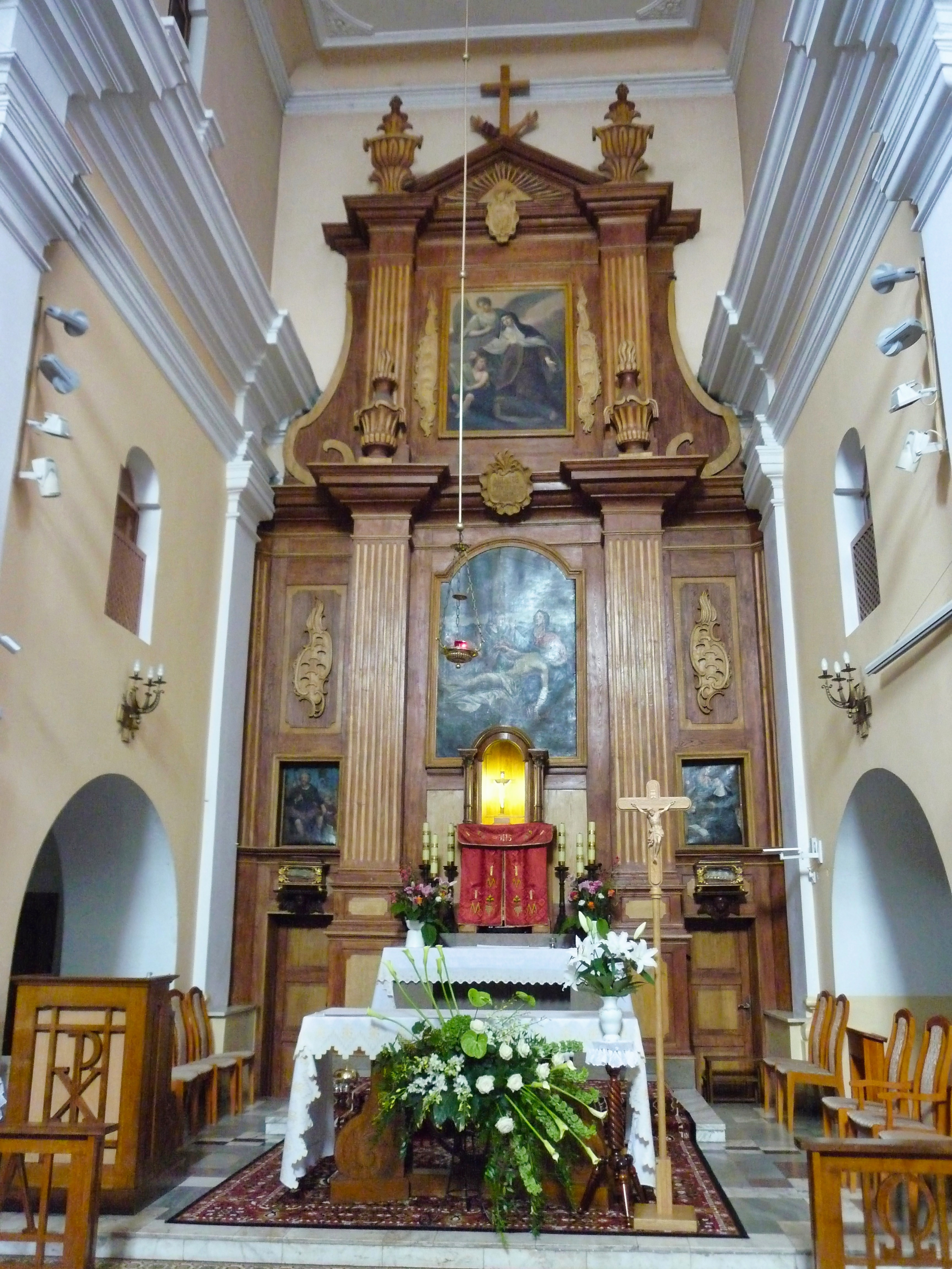 Capuchin parish church (XVIII century) in Łomża - interior